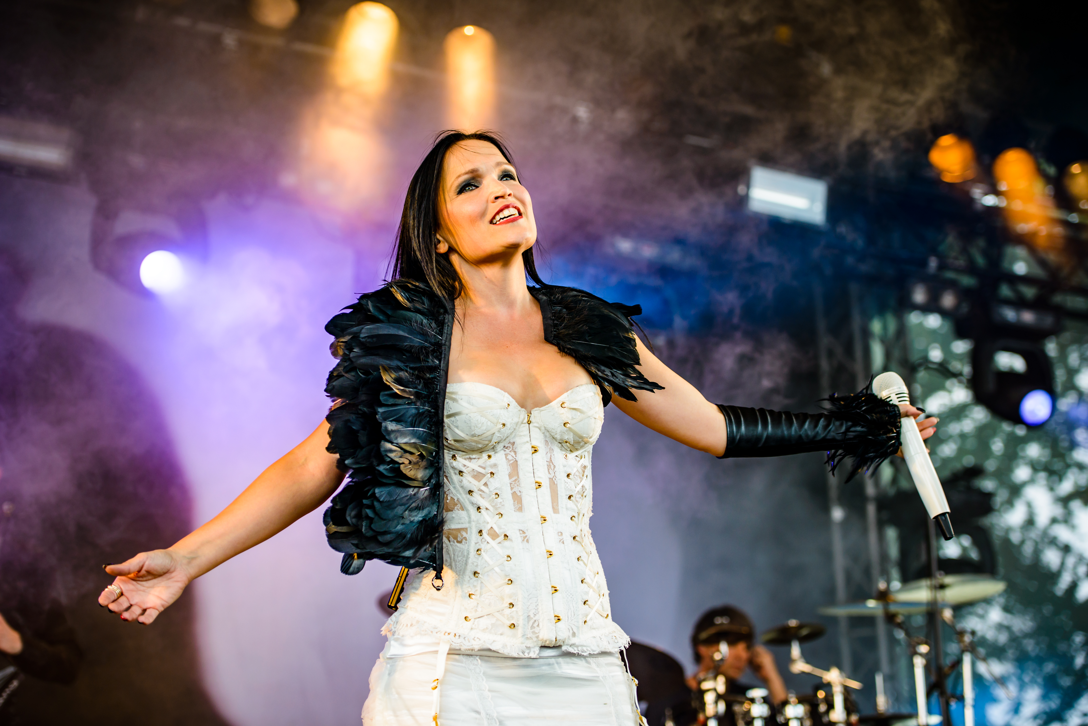 Tarja; Amphi festival 2016